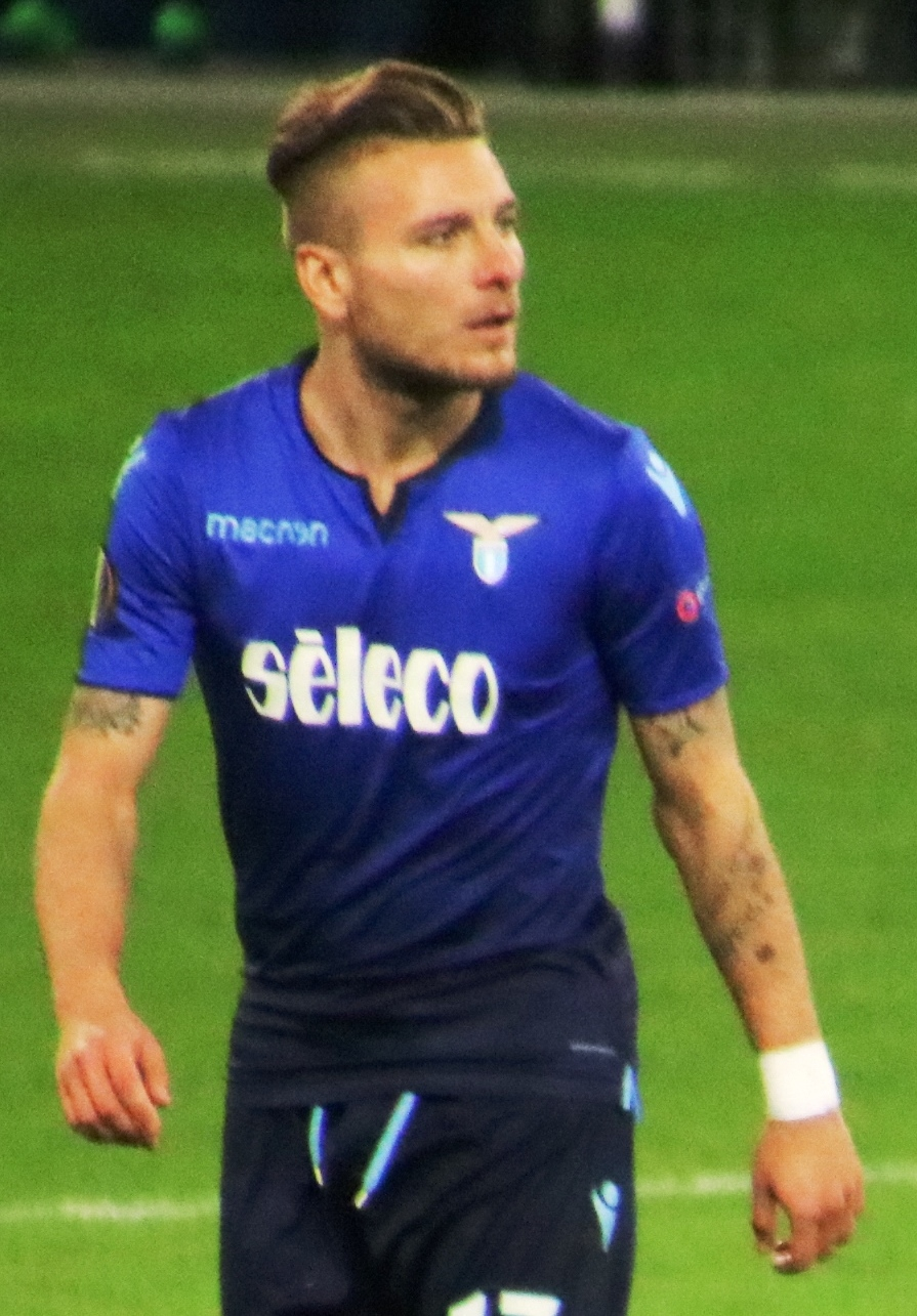 UEFA euro League Quarterfinal 2nd leg